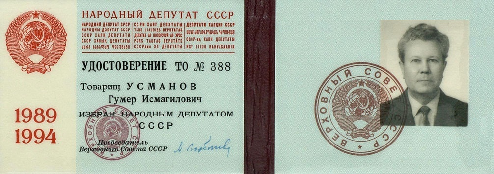 Identity cards Deputy of the Supreme Soviet of the USSR